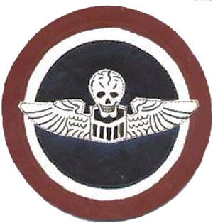 Emblem of the 490th Bombardment Squadron (World War II)